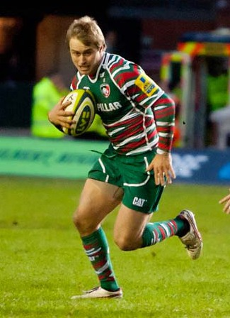 England international Matthew Tait skips around a London Irish defender Leicester during an LV= Cup pool match at Welford Road, Leicester on Sunday 18th November 2012.